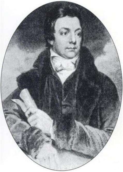 Henry Salt (1780–1827), English artist, traveler, diplomat, and Egyptologist.